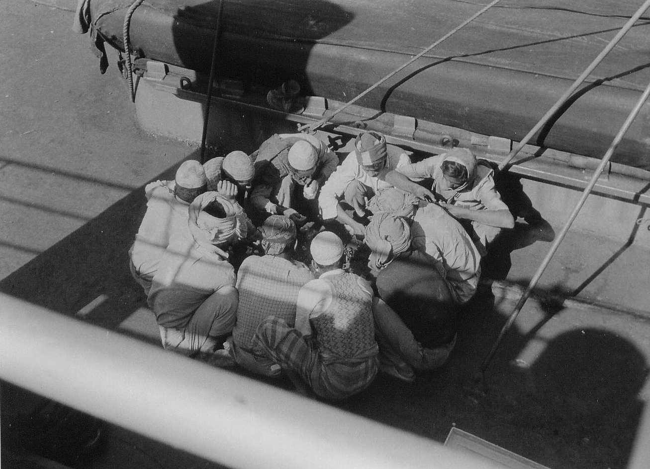 Aboard the German cargo ship MS Bernhard Howaldt, Arab port workers during their common lunch - 1958